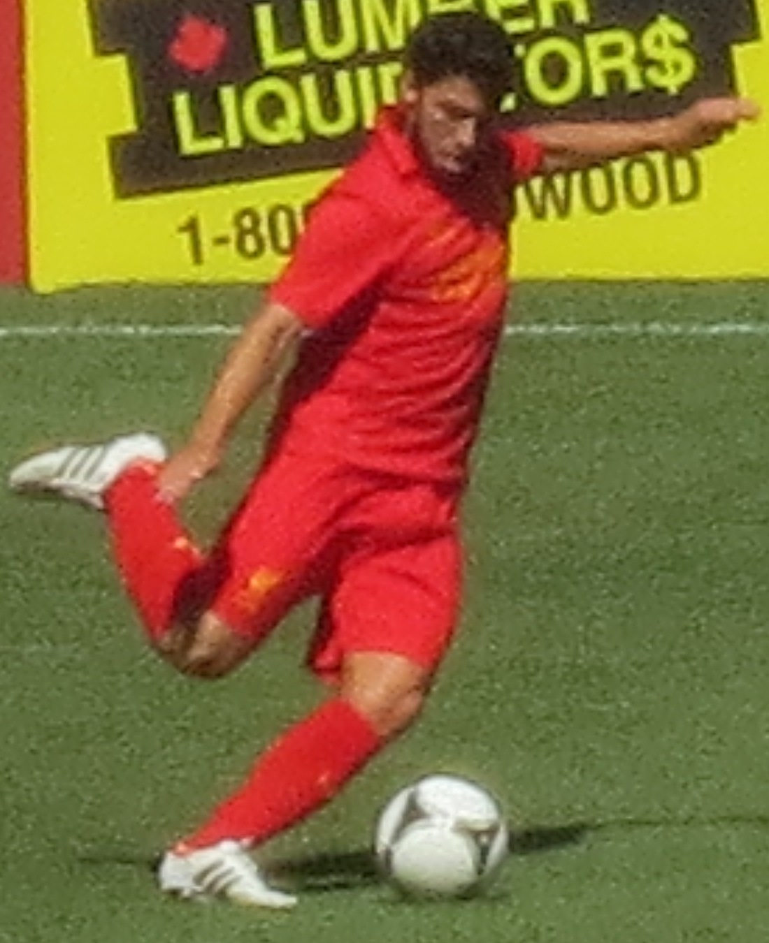 Dani Pacheco playing for Liverpool FC in their friendly vs Toronto FC